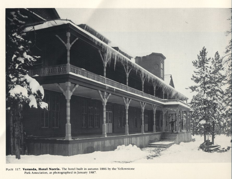 Veranda of Norris Hotel, Yellowstone National Park, 1887